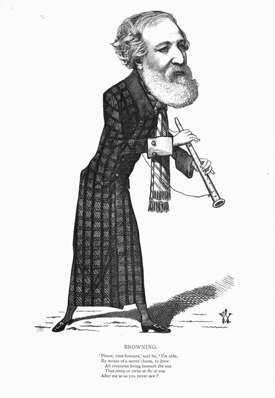 Caricature of Robert Browning by Frederick Waddy